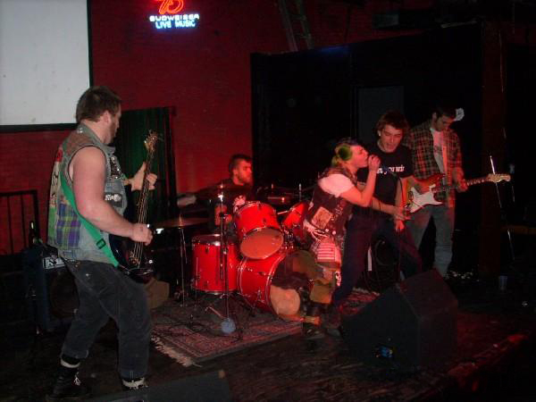 Picture of Sexual Assault, punk band from Canada, at L3